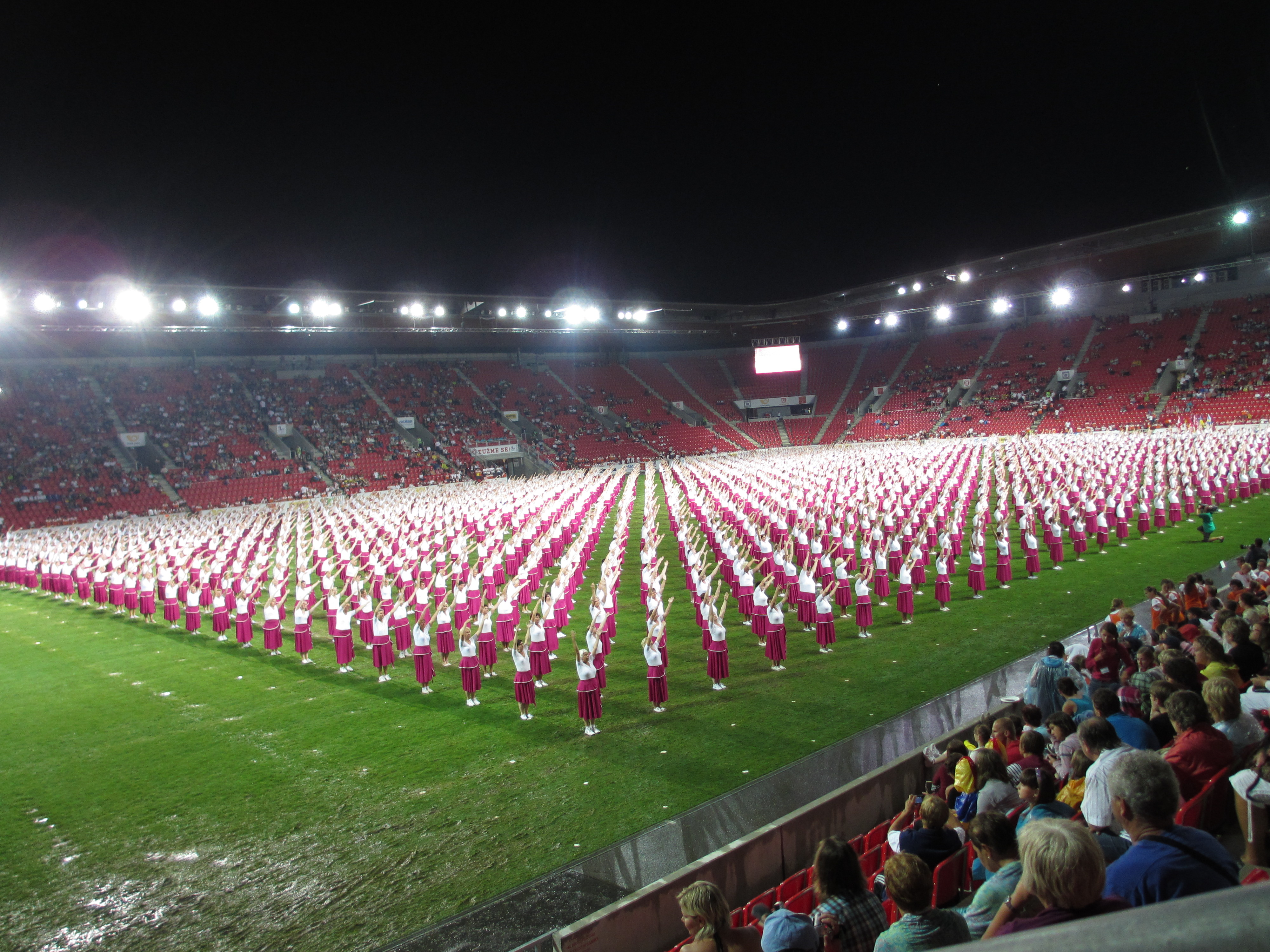 Gathering of Czech sport club Sokol called "XV. sokolský slet", Stadion Eden (called in 2012 Synot Tip Arena), Prague, Czech Republic